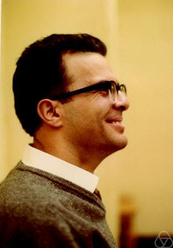 Fredos Papangelou, Columbus (Ohio) 1970